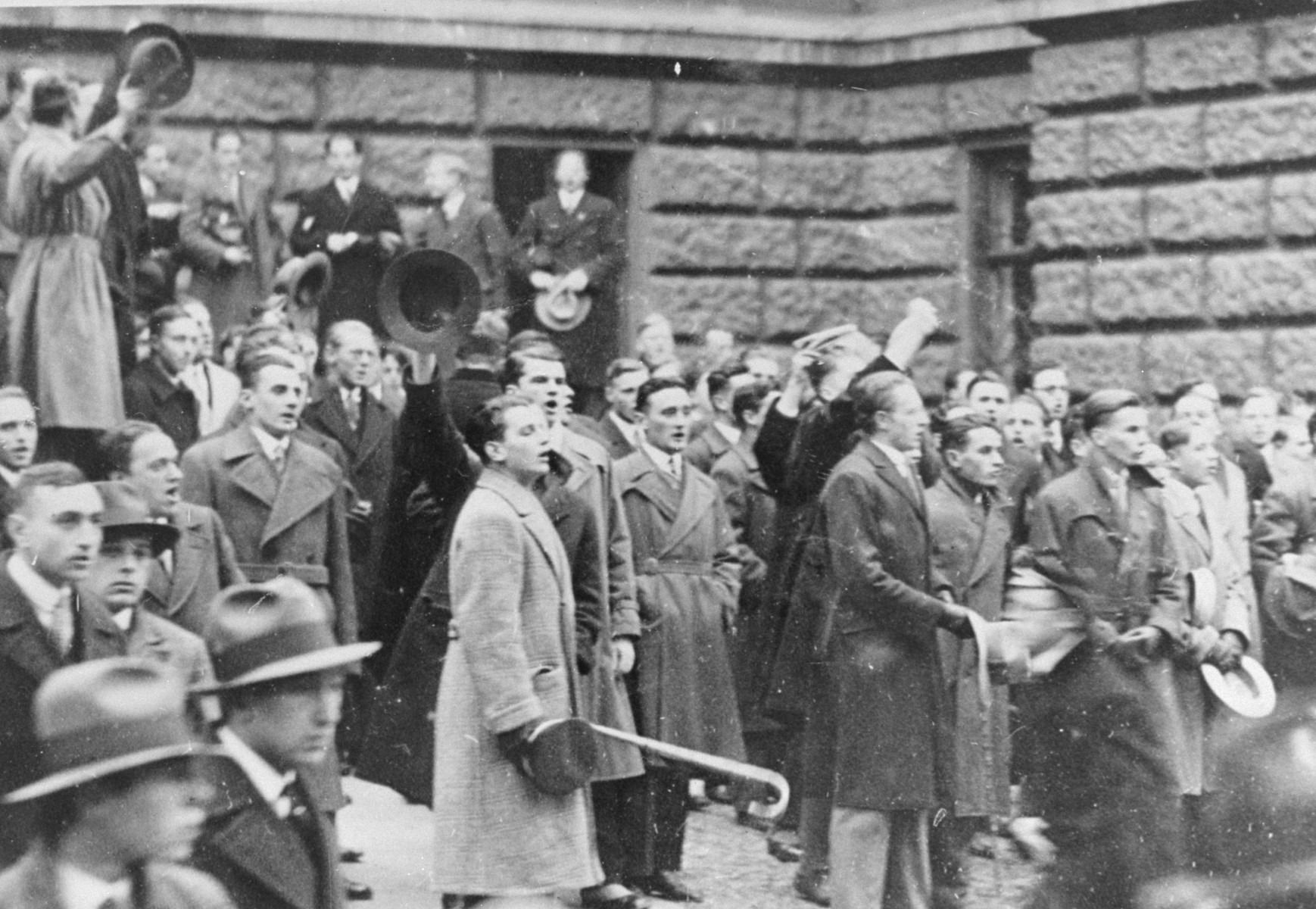 See title